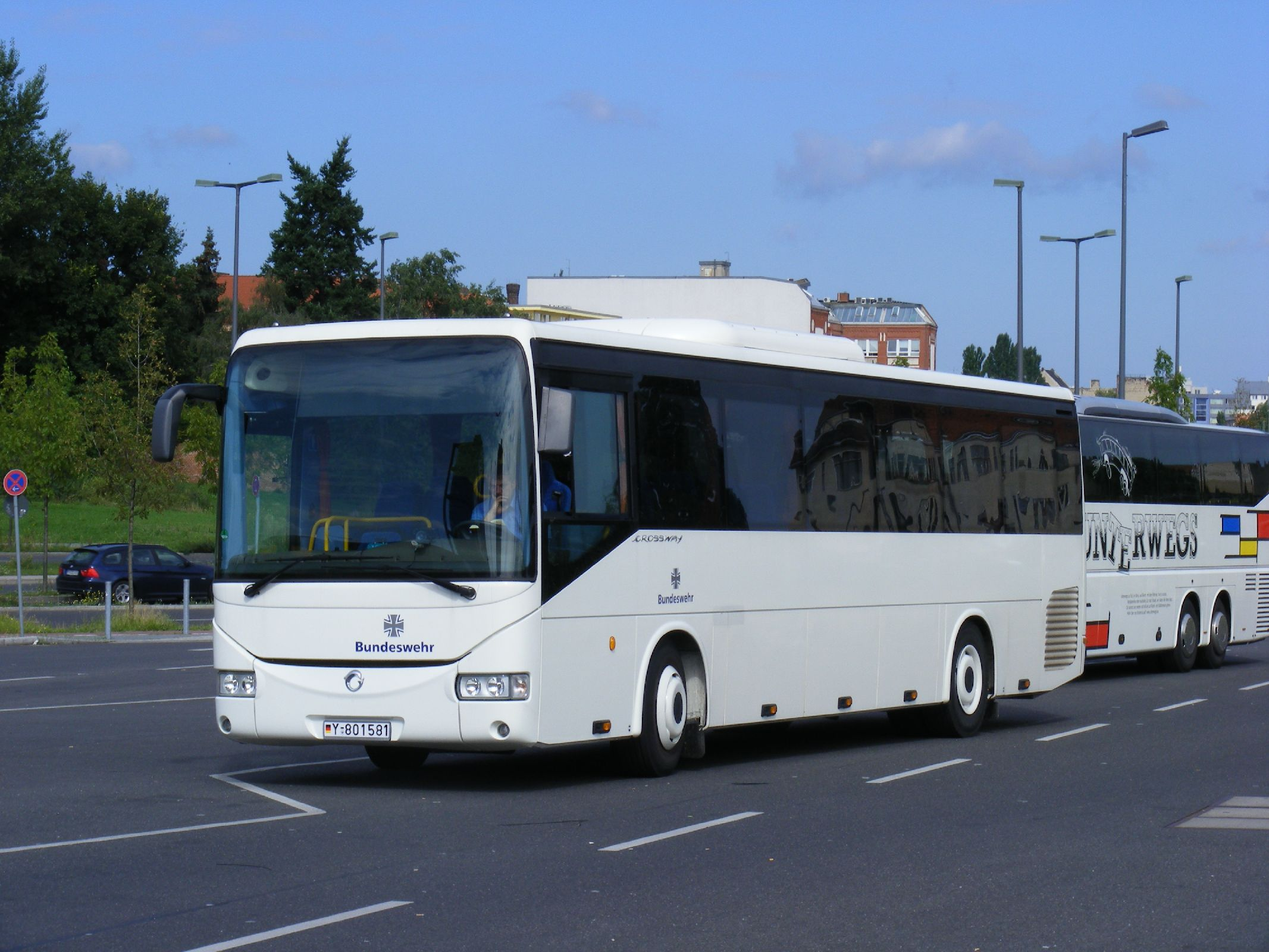 Irisbus Crossway, Bundeswehr